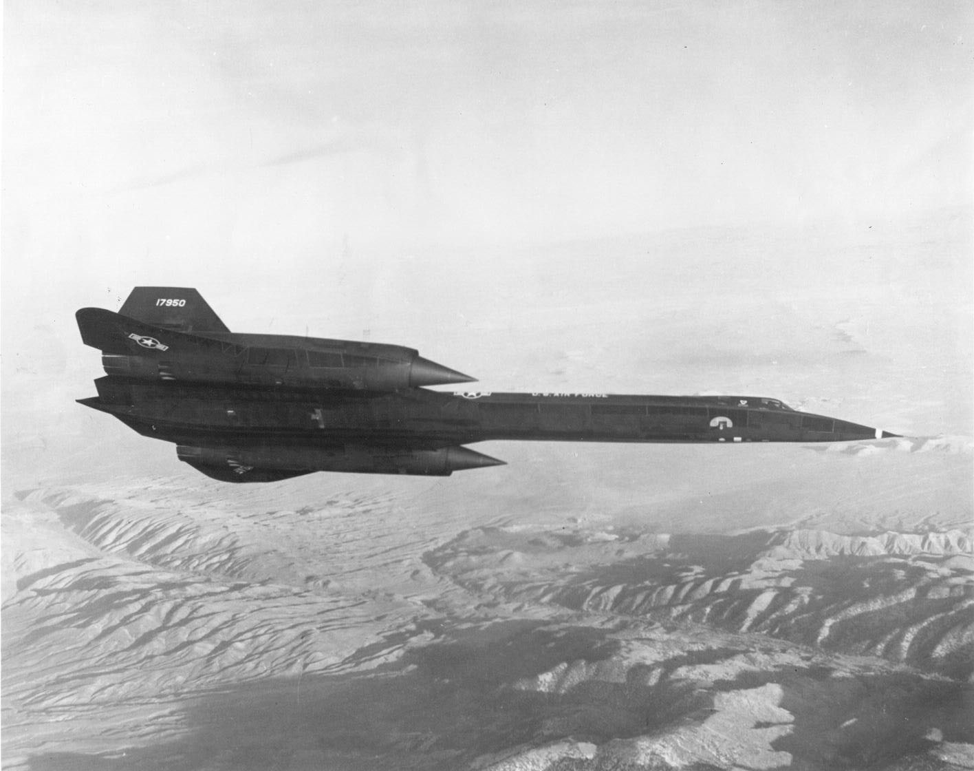 Lockheed SR-71 in flight (SN 61-7950)